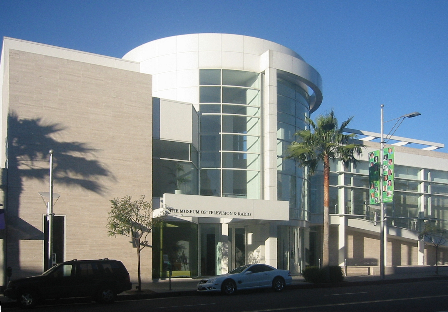 The Paley Center for Media, formerly The Museum of Television and Radio in Beverly Hills, California